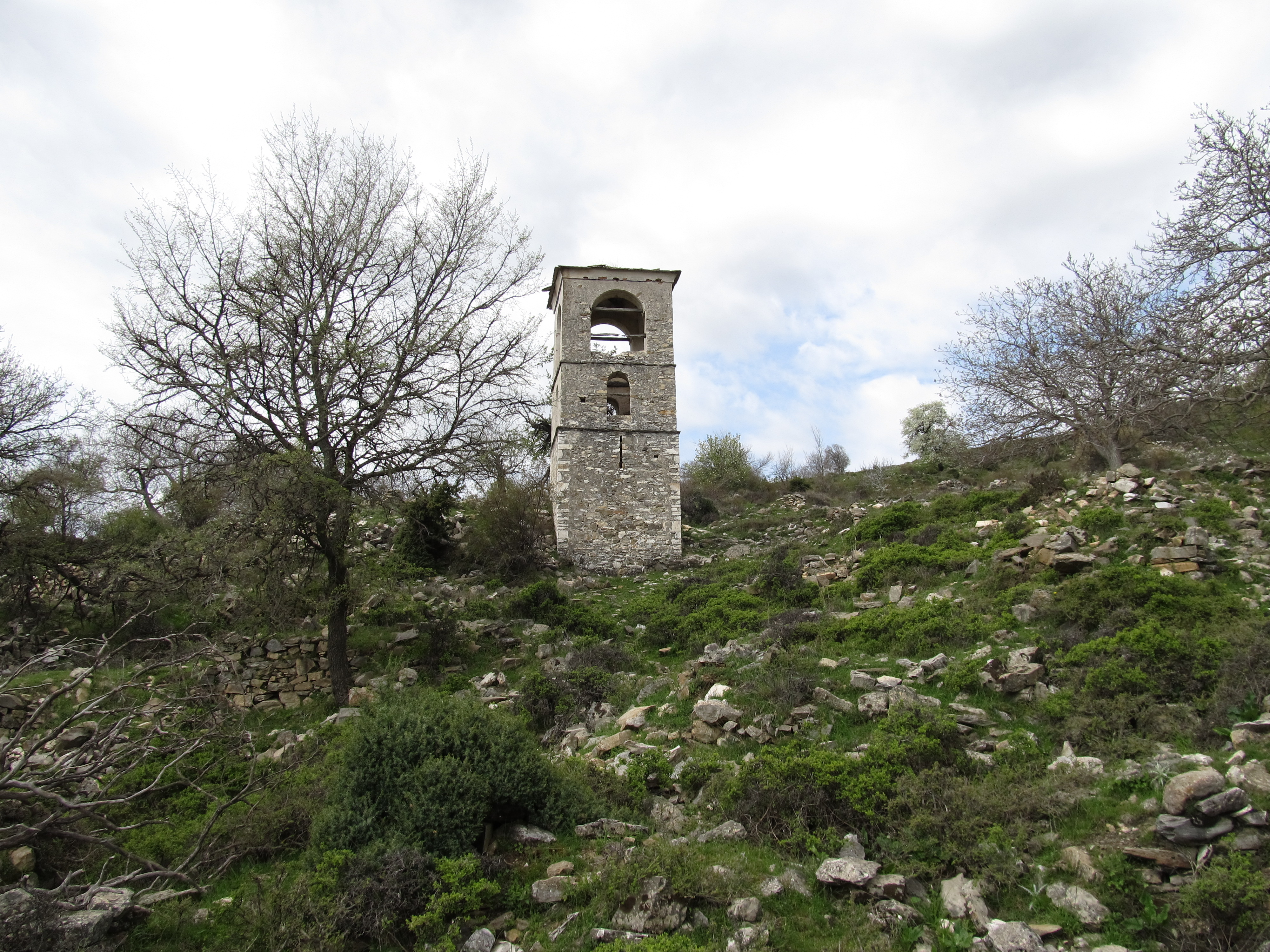 The bell tower and the ruins of the village of Banica (Kariye), Northern Greece